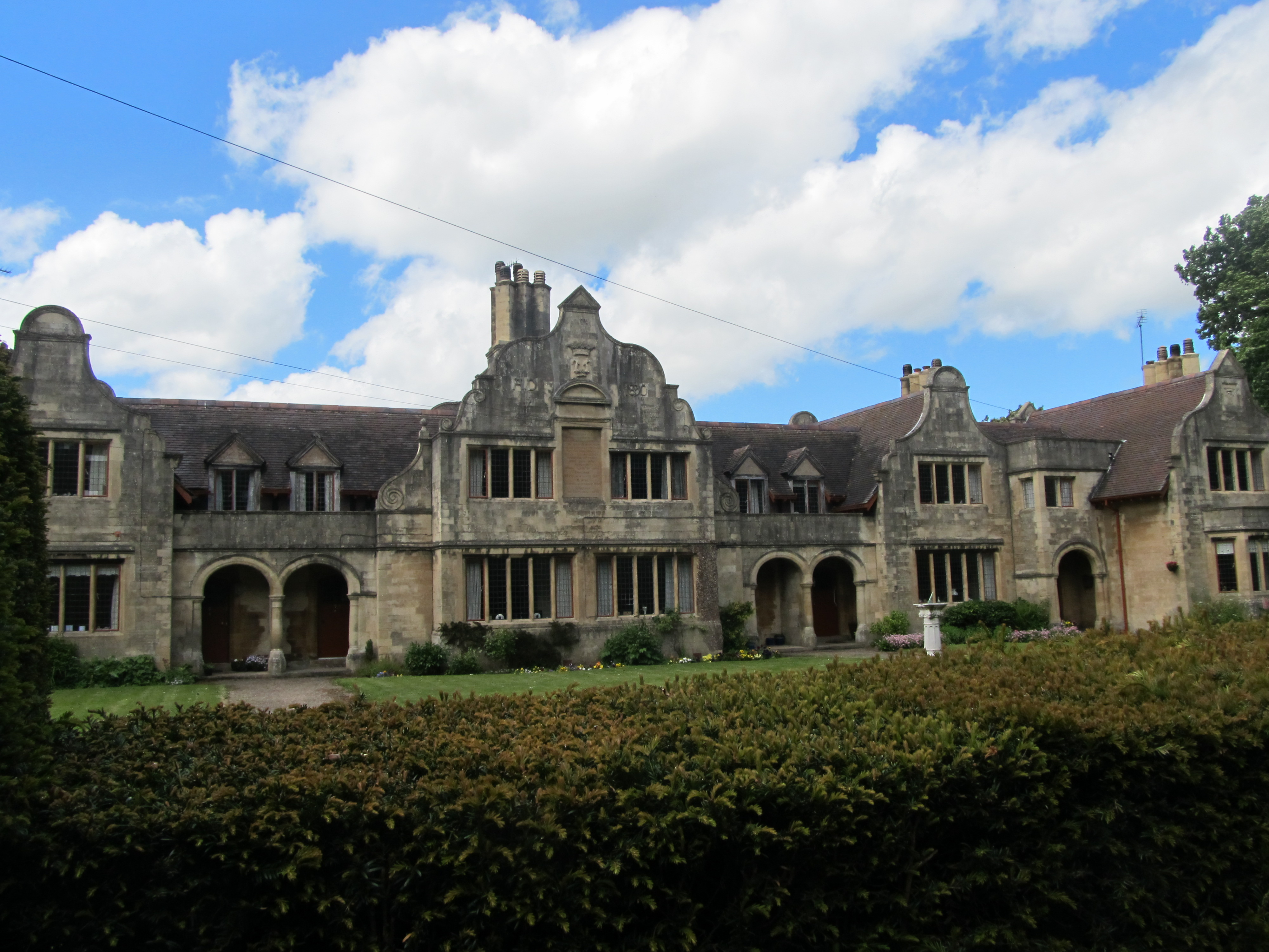 Winnings Almshouses, Wellbeck Abbey, Worksop